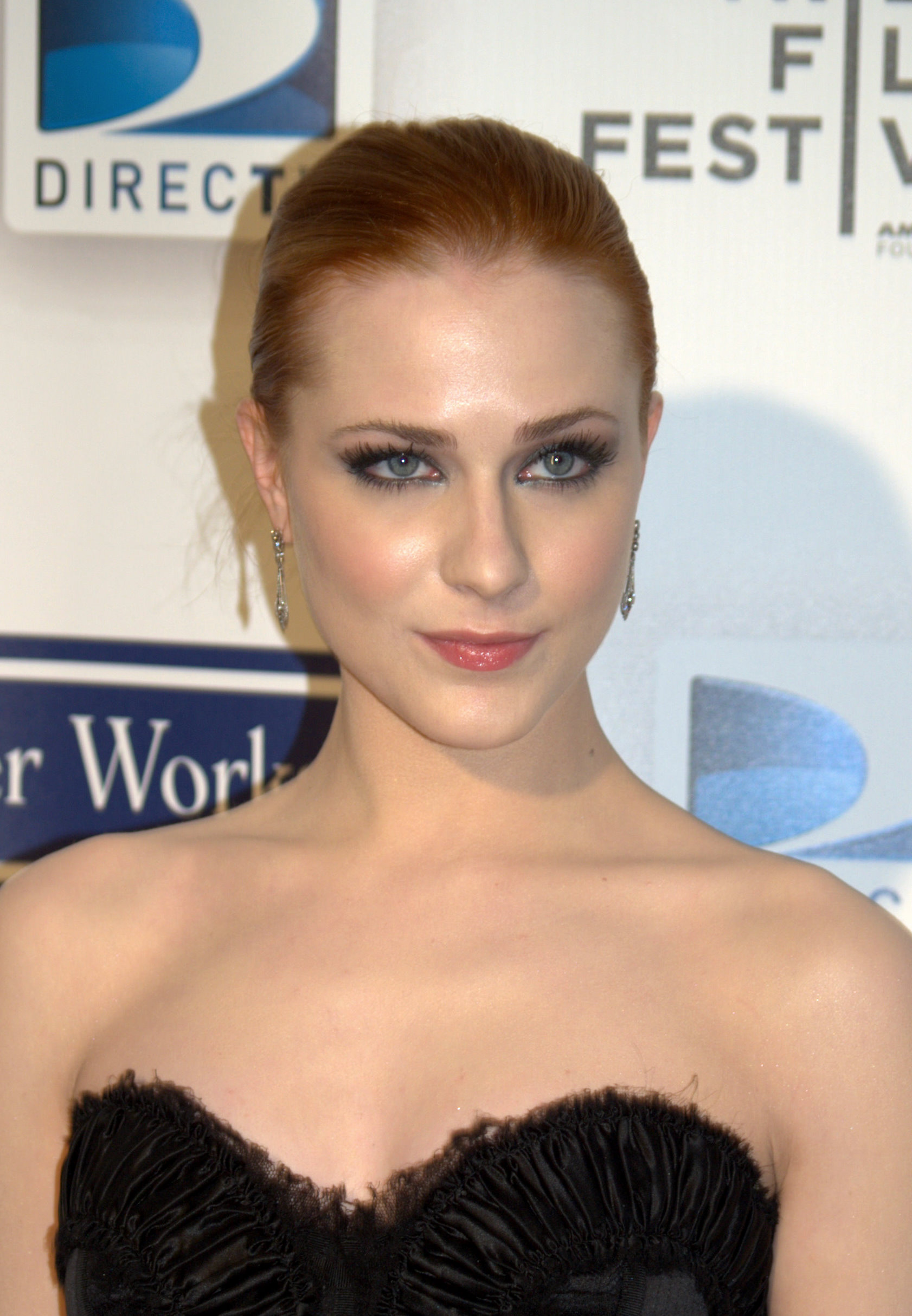 Evan Rachel Wood at the premiere of the Woody Allen film Whatever Works at the 2009 Tribeca Film Festival.